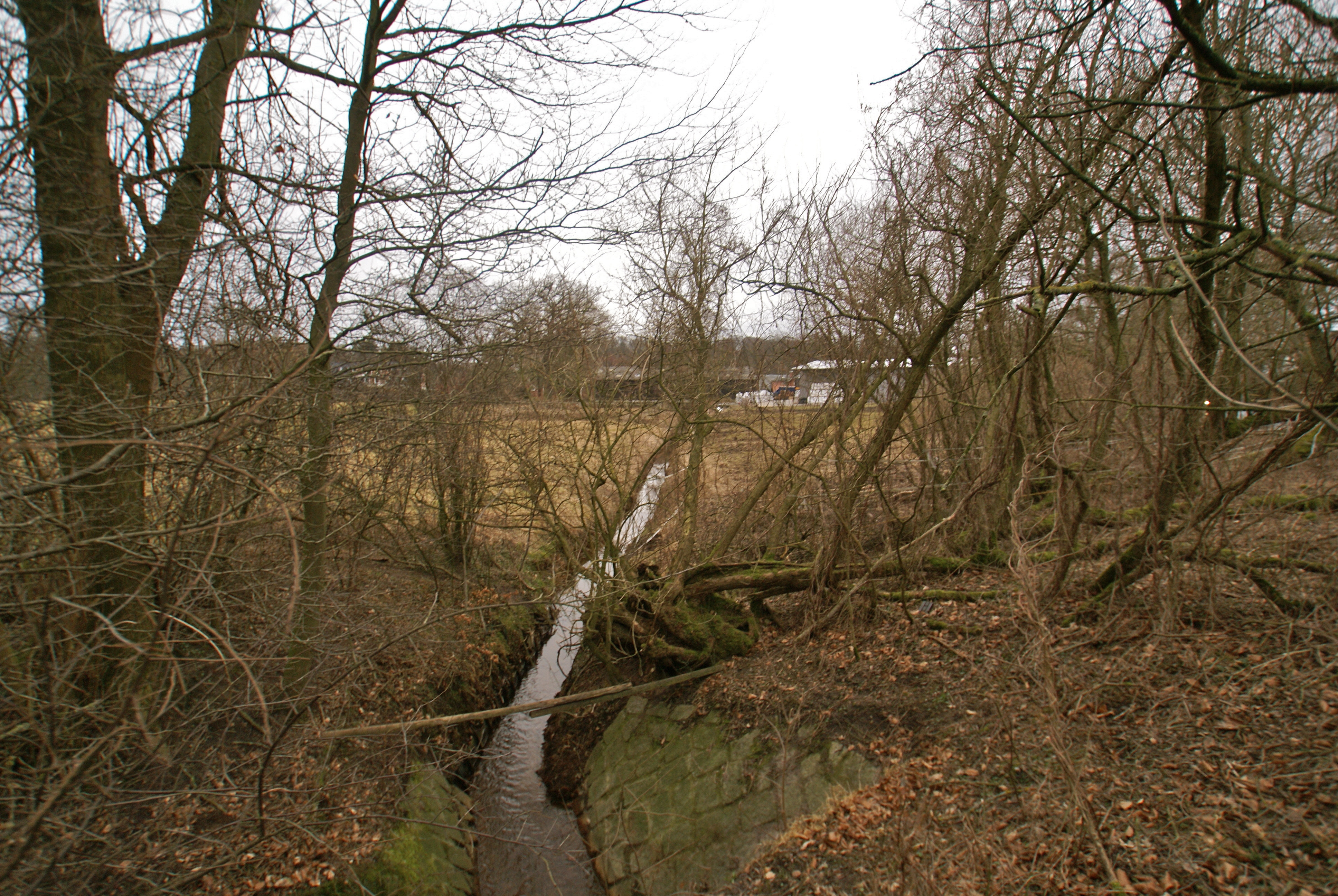 Hamburg (Wohldorf-Ohlstedt), Germany: The river Wohlsdorfer Graben in southern direction